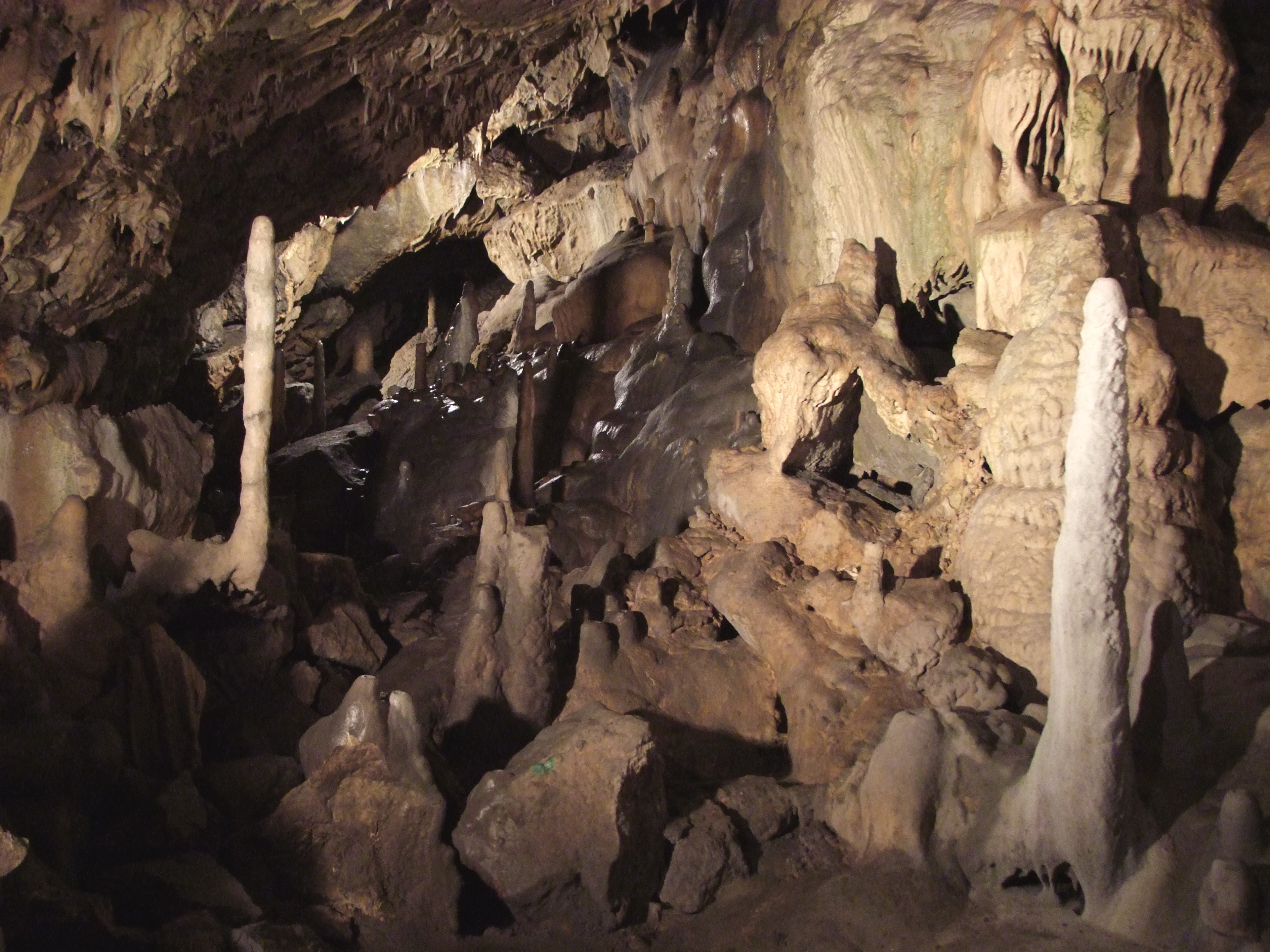 Tropfsteinhöhle